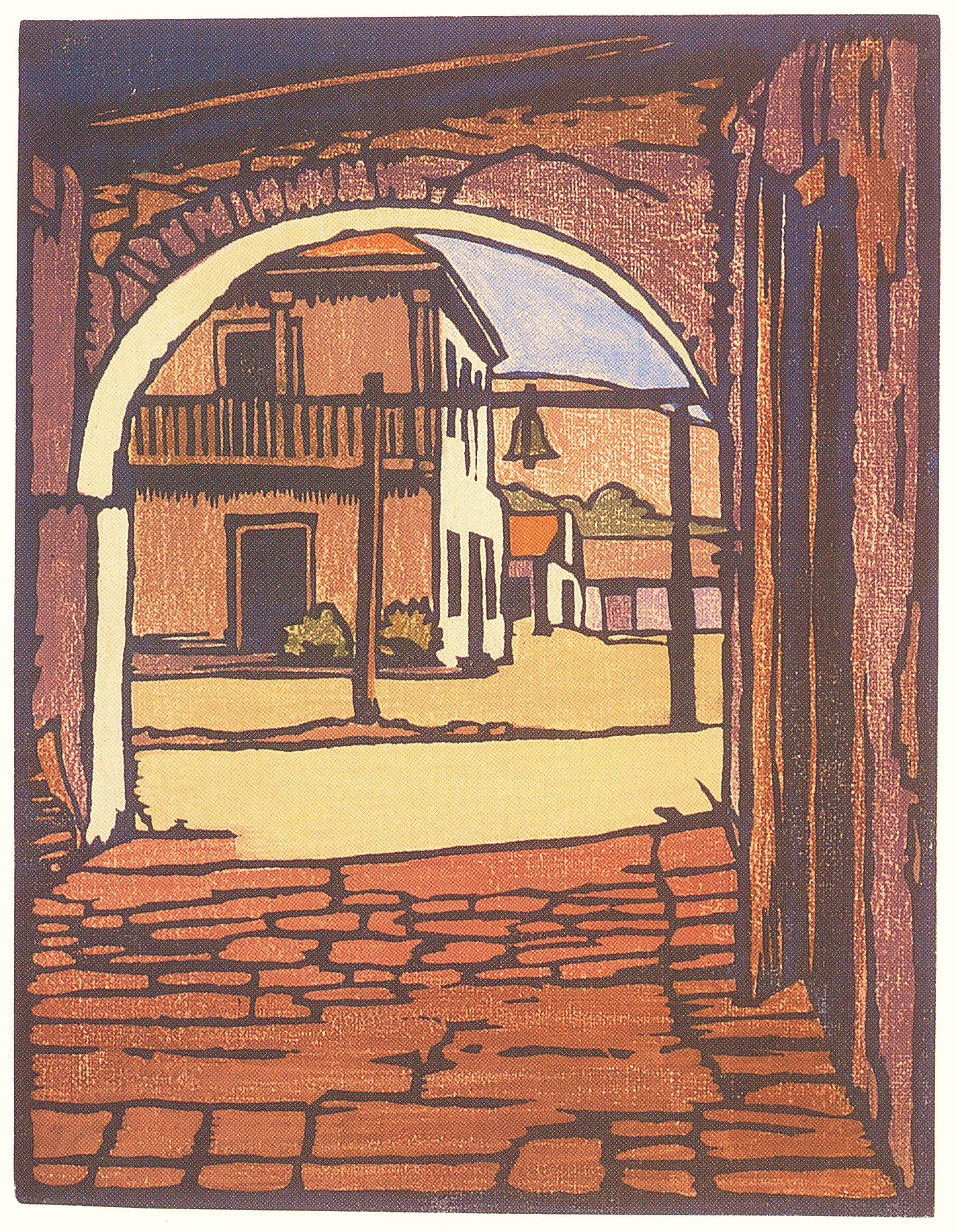 an image of a 1920 woodblock print of Mission San Juan Bautista in California